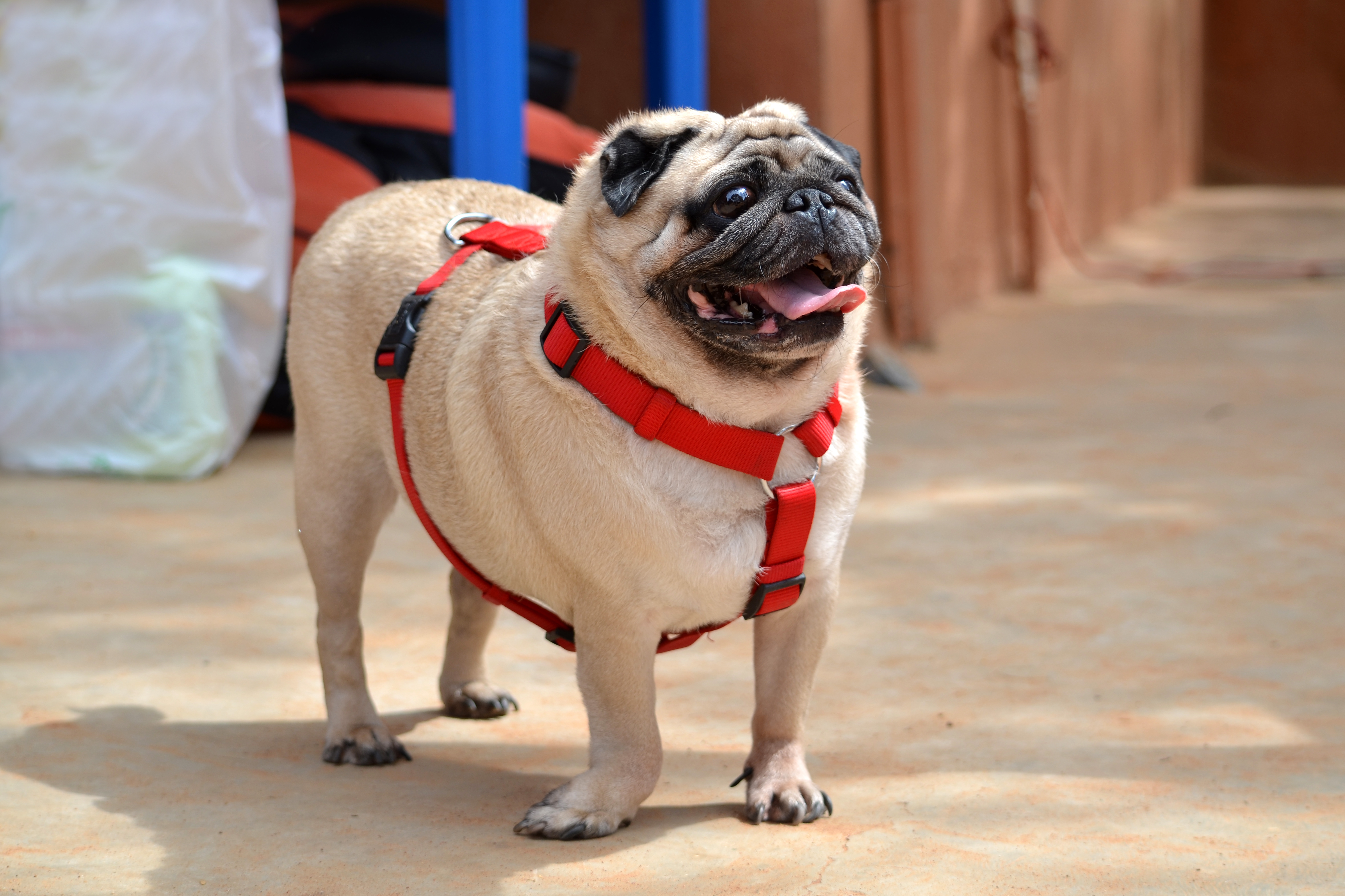 Pug - Face - Style - Crop